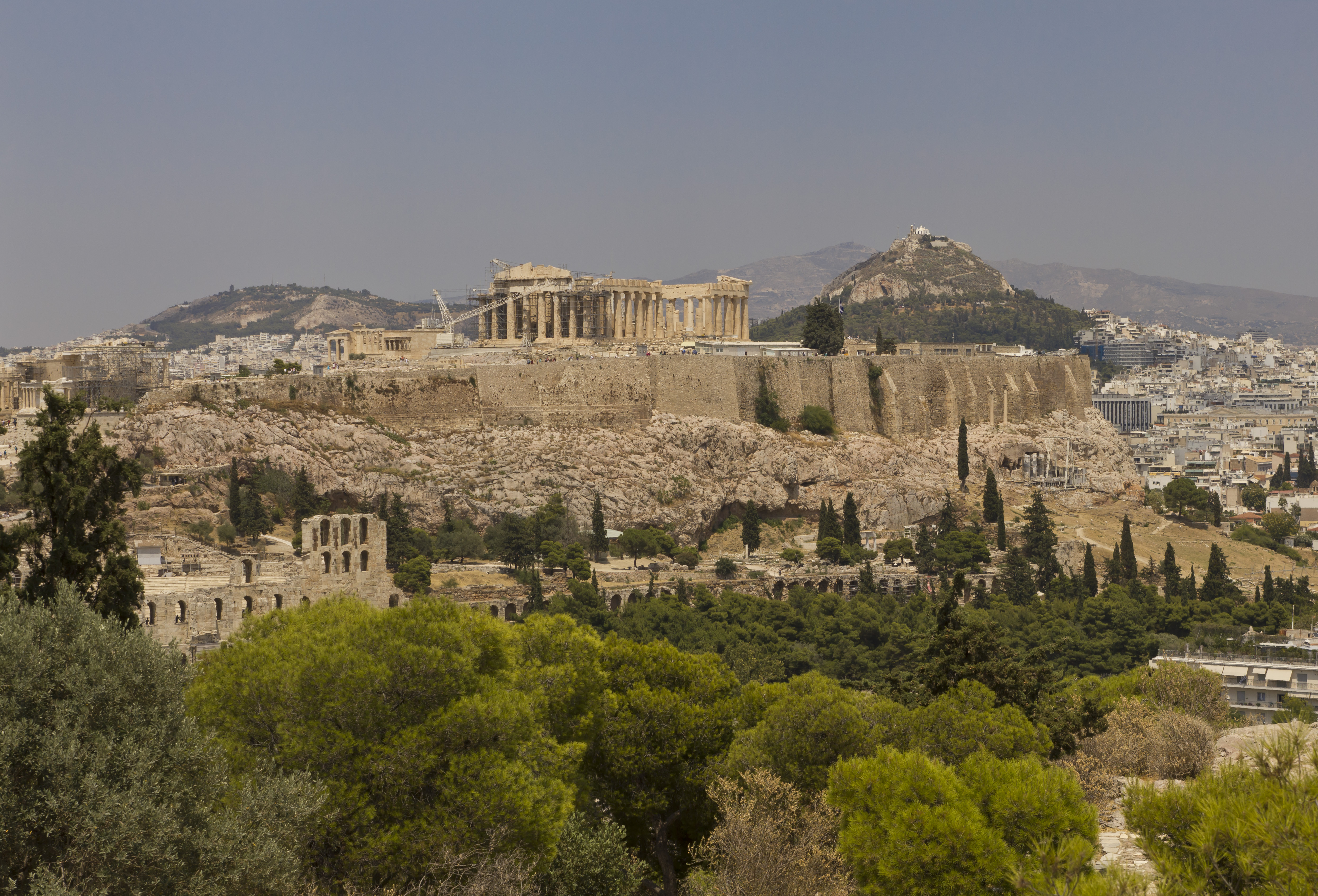 View from Philopappos Hill in Athens (Attica, Greece) — Acropolis of Athens